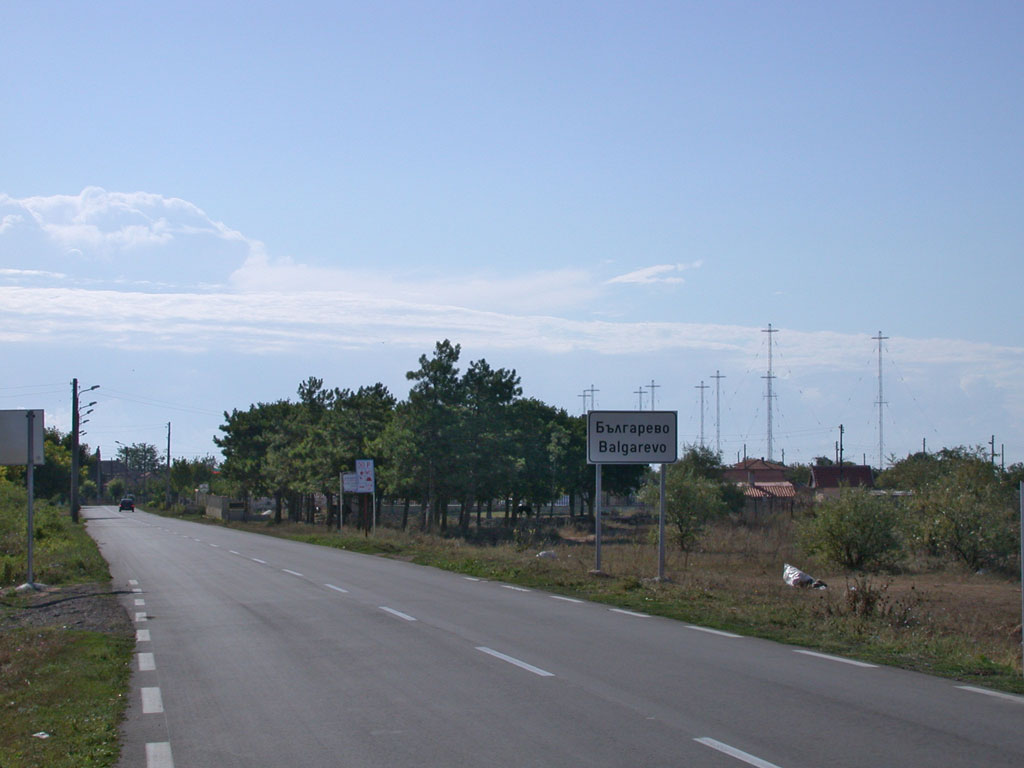 The village of Balgarevo in Northeast Bulgaria